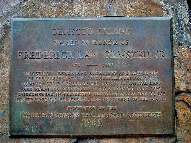 Picture of a plaque on a tourist walkway on Olmsted Island, located in the Potomac River in Maryland near Great Falls.